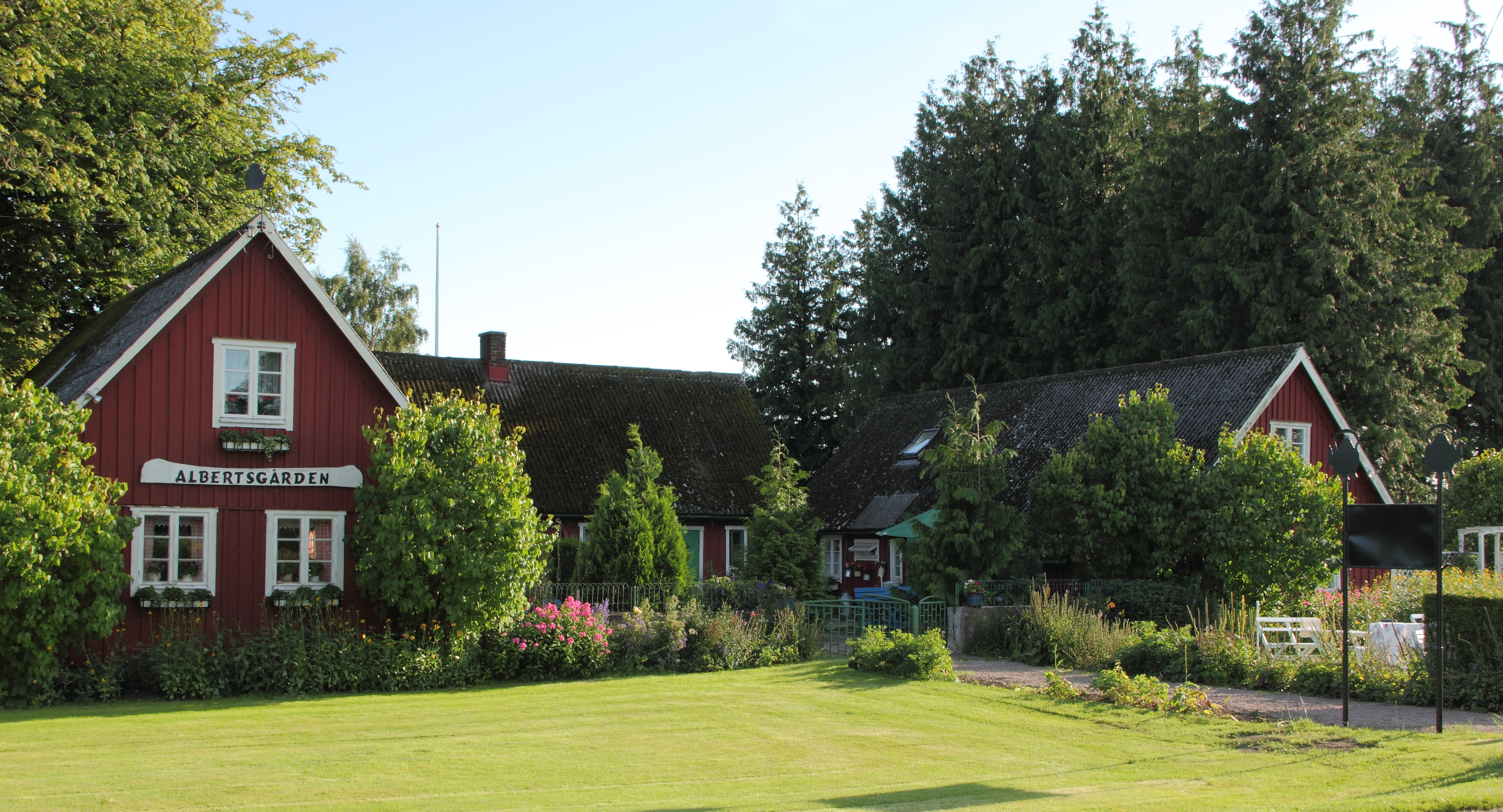 Albertsgården in Norra Häljaröd, Sweden